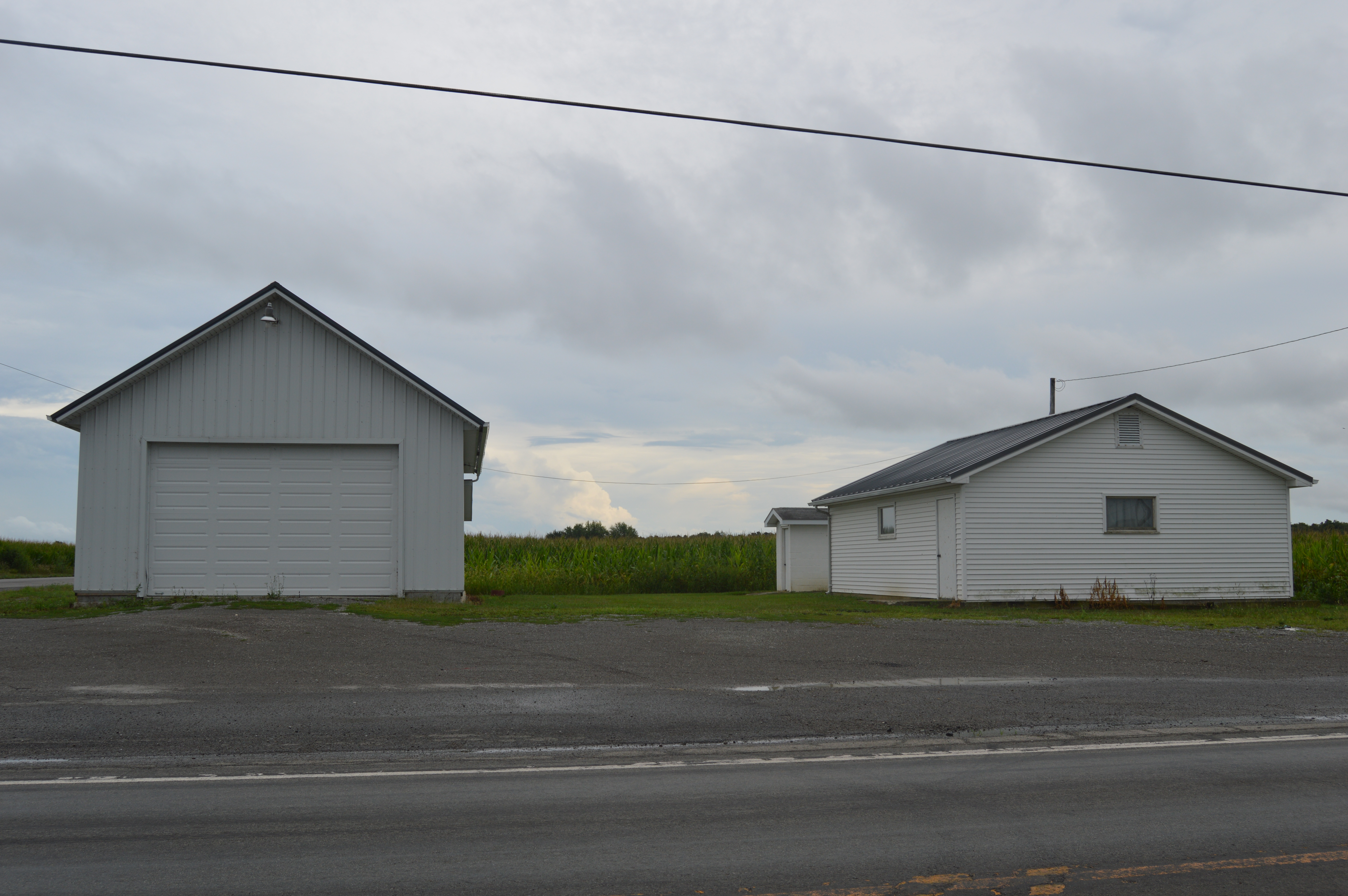 Northern sides of the McDonald Township hall and road-maintenance garage, located on State Route 67 at Jumbo in Hardin County, Ohio, United States.